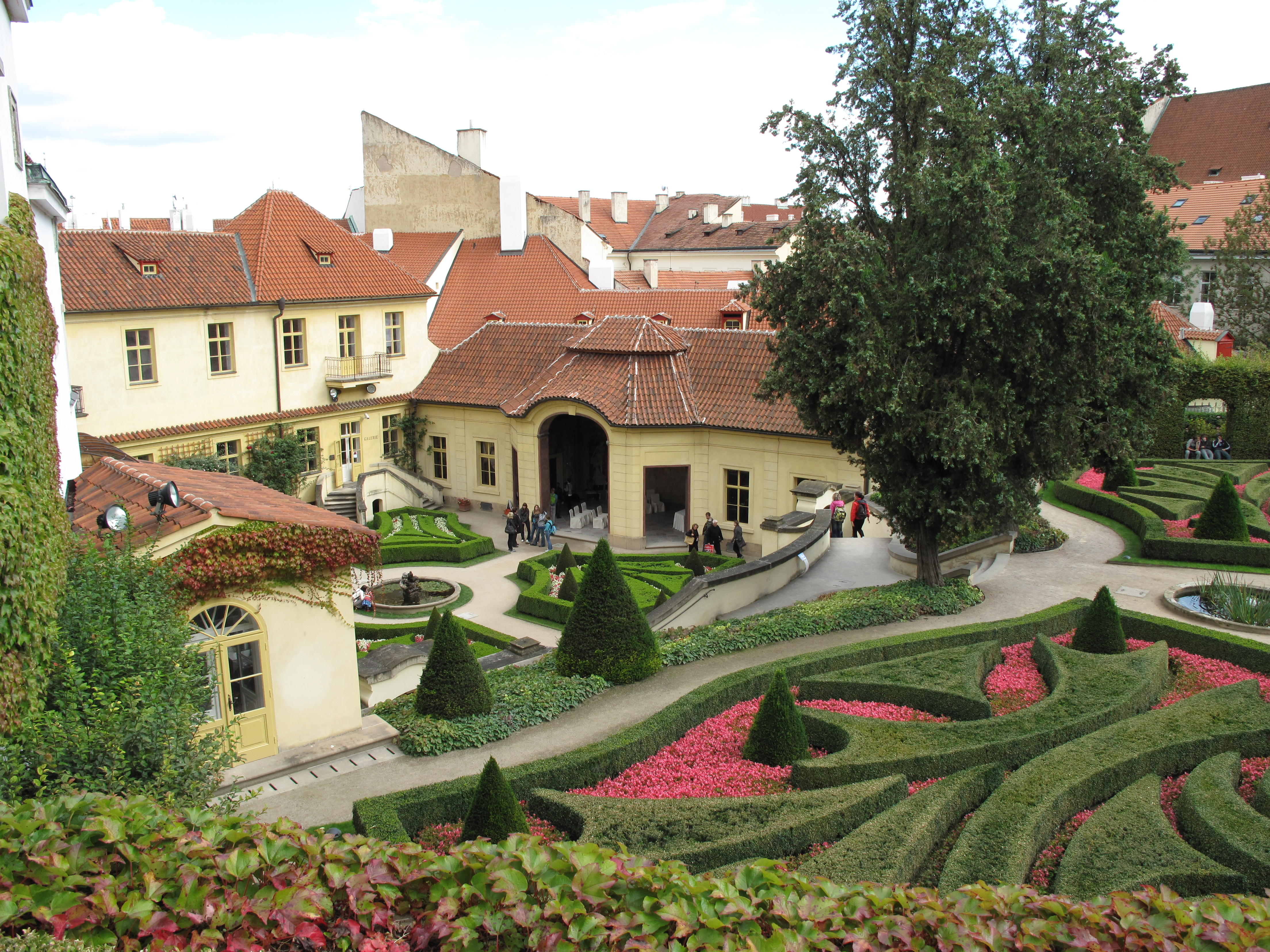 Sala terrena from the third level of Vrtba Garden, Prague, Czech Republic.